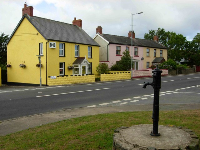 Scleddau. Looking along the A40 towards Fishguard in this main road village.